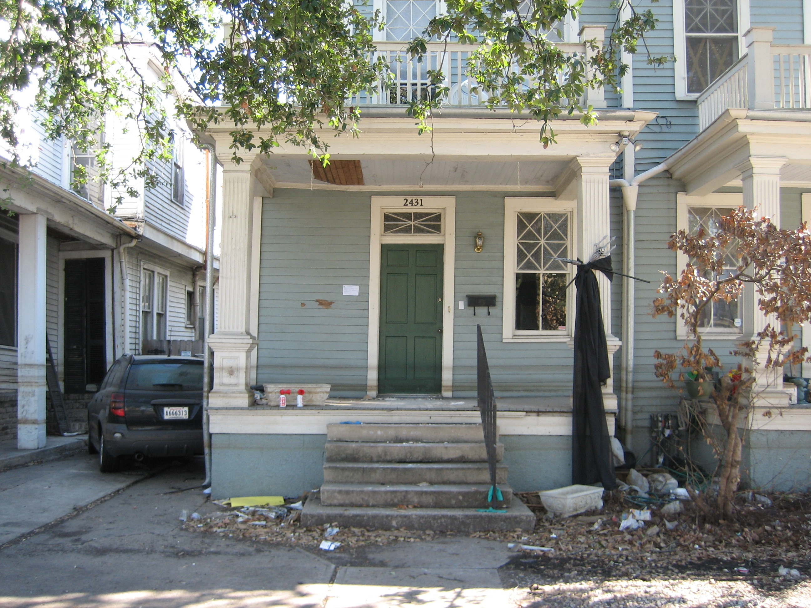 New Orleans after Hurricane Katrina: formerly flooded residential area along Napoleon Avenue Photo by Infrogmation